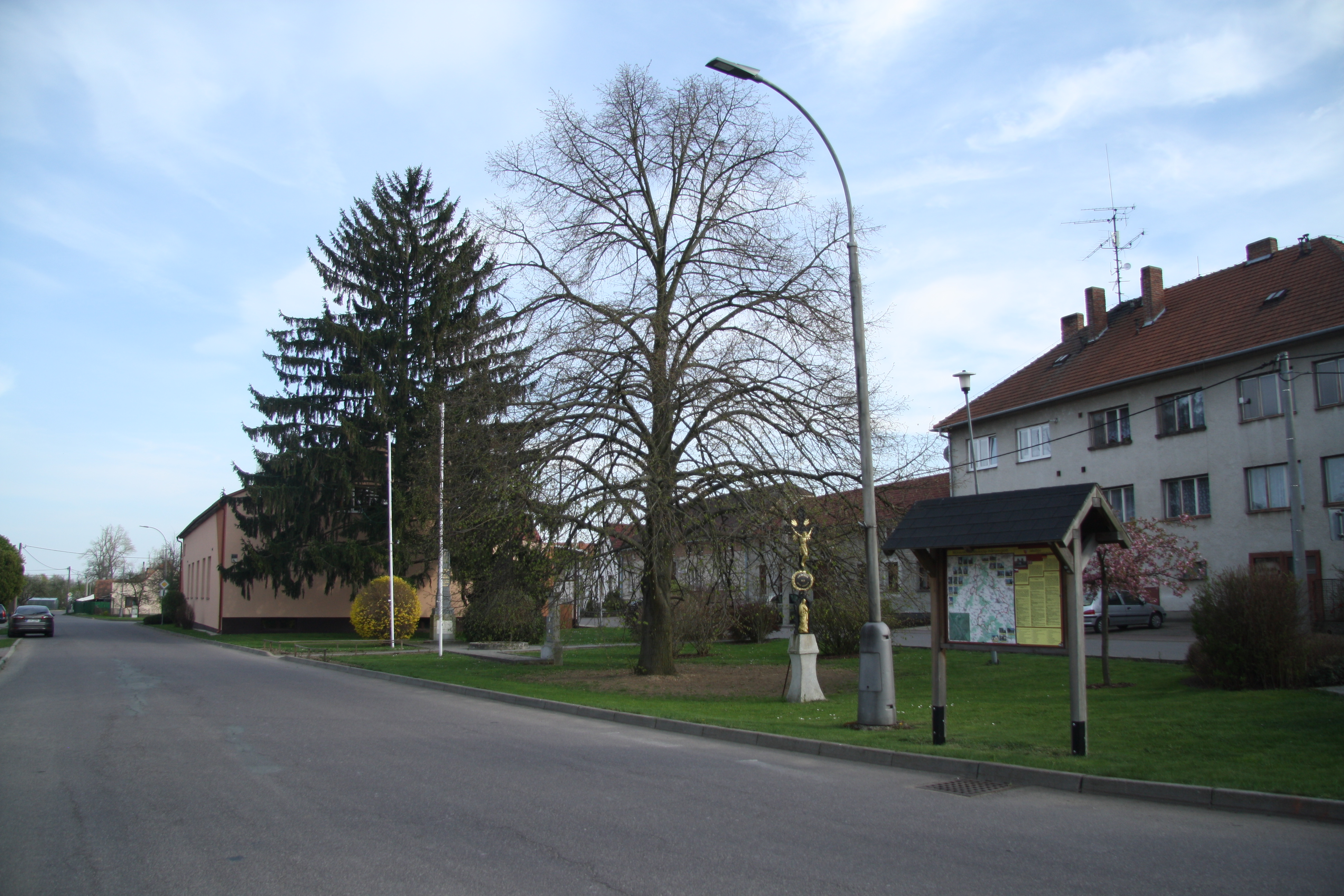 Center of Jakubov u Moravských Budějovic, Třebíč District.